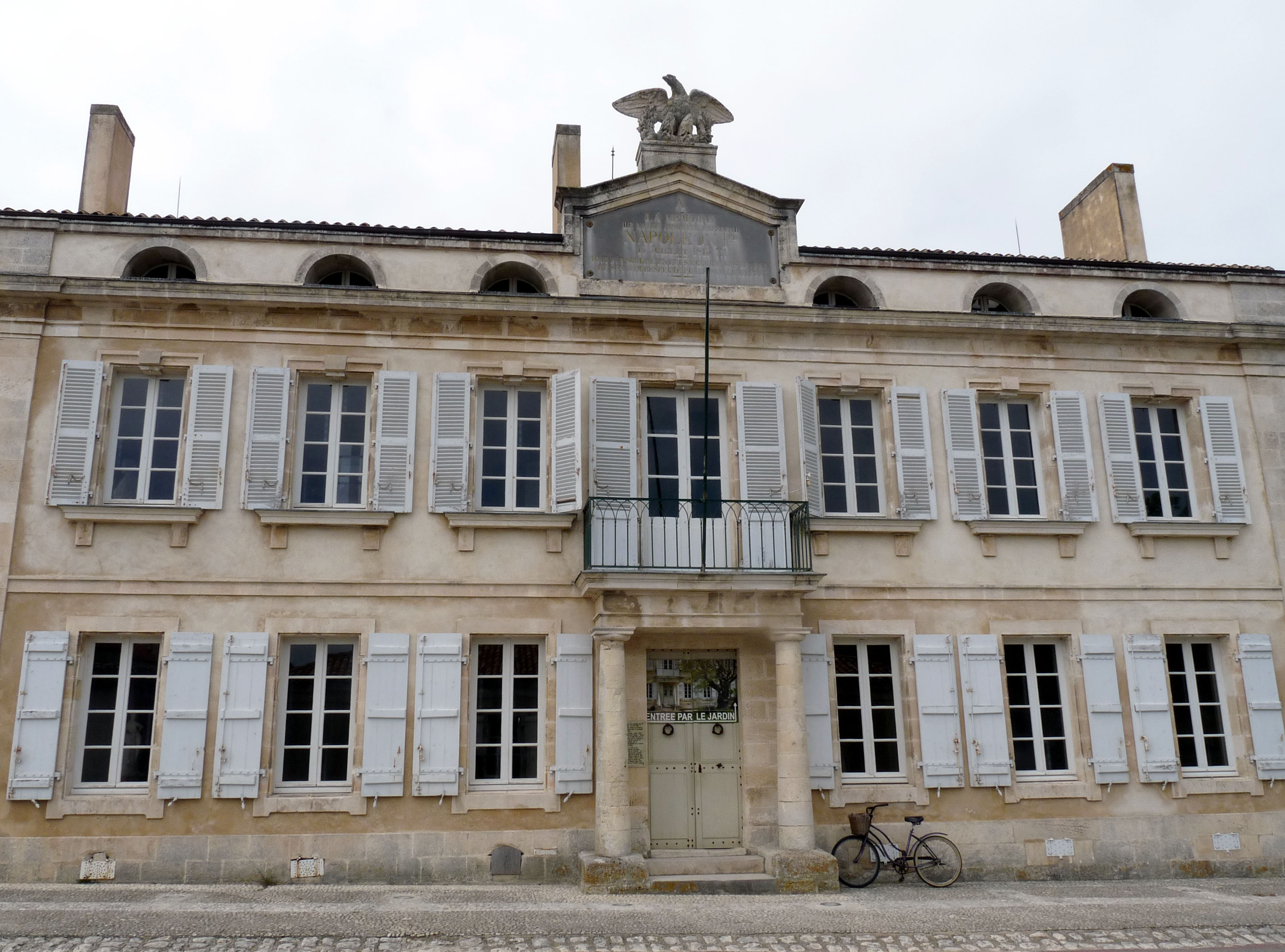 Musée napoléonien (Ile d'Aix, Charente-Maritime)